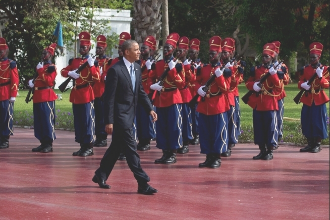 President Barack Obama reviews an Honor Guard following his arrival at the Presidential Palace in Dakar, Senegal, June 27, 2013. (Official White House Photo by Pete Souza)